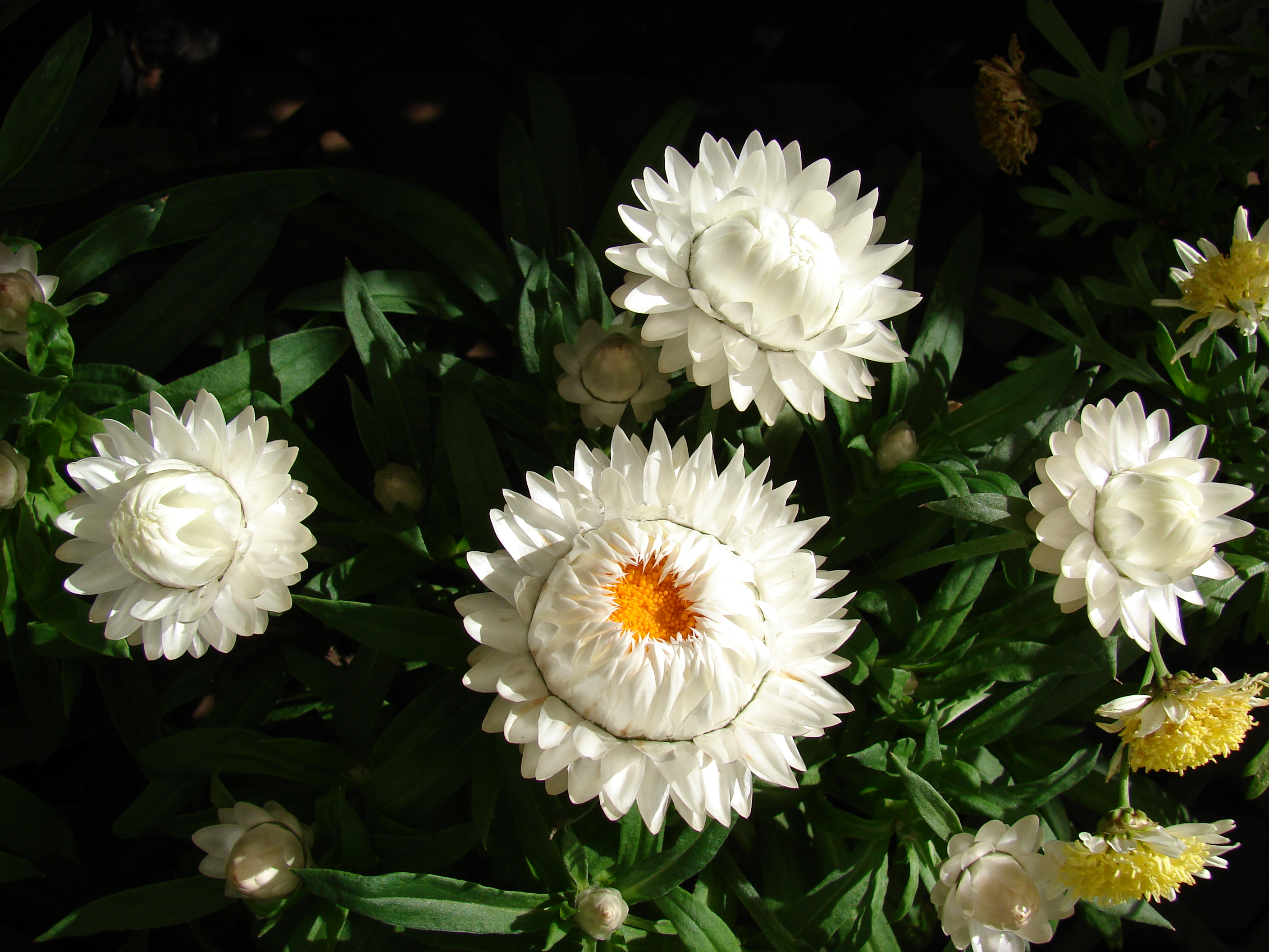 Xerochrysum bracteatum (Dreamtime Jumbo White flowering habit). Location: Maui, Walmart Kahului